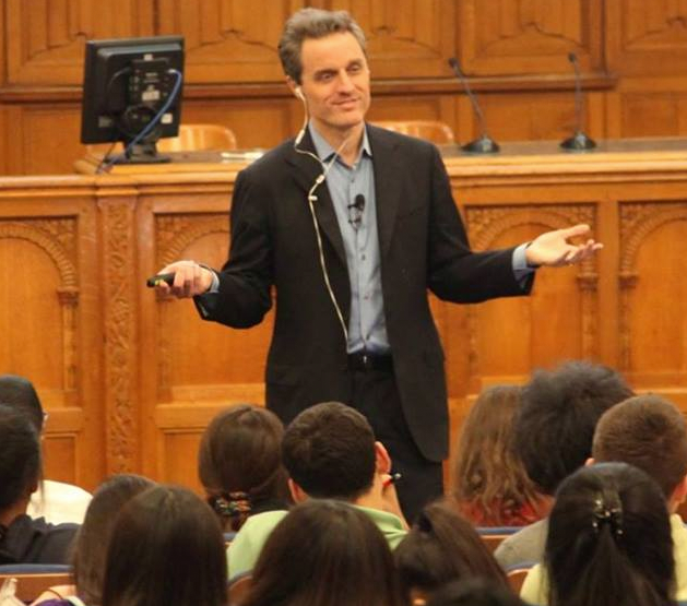 Dr. Michael McCullough is a Founder of QuestBridge